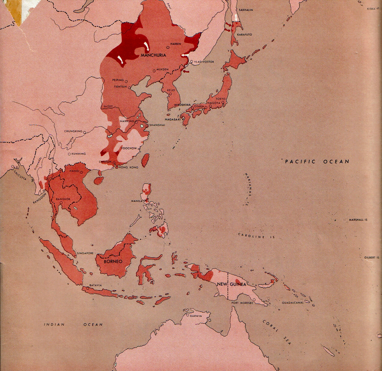 Map of the front against Japan as of the end of the war in 1945: This map is taken from the source "Atlas of the World Battle Fronts in Semimonthly Phases to August 15th 1945: Supplement to The Biennial report of The Chief of Staff of the United States Army July 1, 1943 to June 30 1945 To the Secretary of War". (See Cover, Forward and Map details) Note: Medium red areas show territory surrendered by Japan